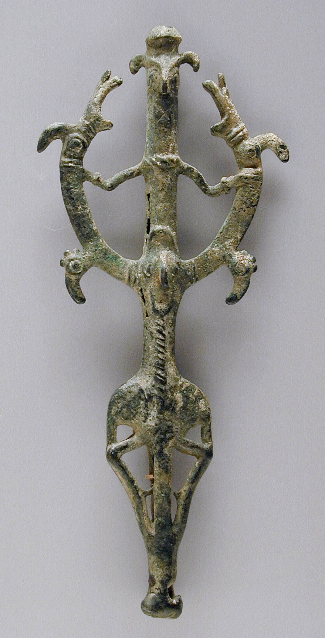 Iran, Luristan, Luristan bronzes, circa 1000-650 B.C. Architecture; Architectural Elements Bronze, cast 7 1/4 x 3 1/8 in. (18.5 x 8.1 cm) The Nasli M. Heeramaneck Collection of Ancient Near Eastern and Central Asian Art, gift of The Ahmanson Foundation (M.76.97.13) Art of the Ancient Near East